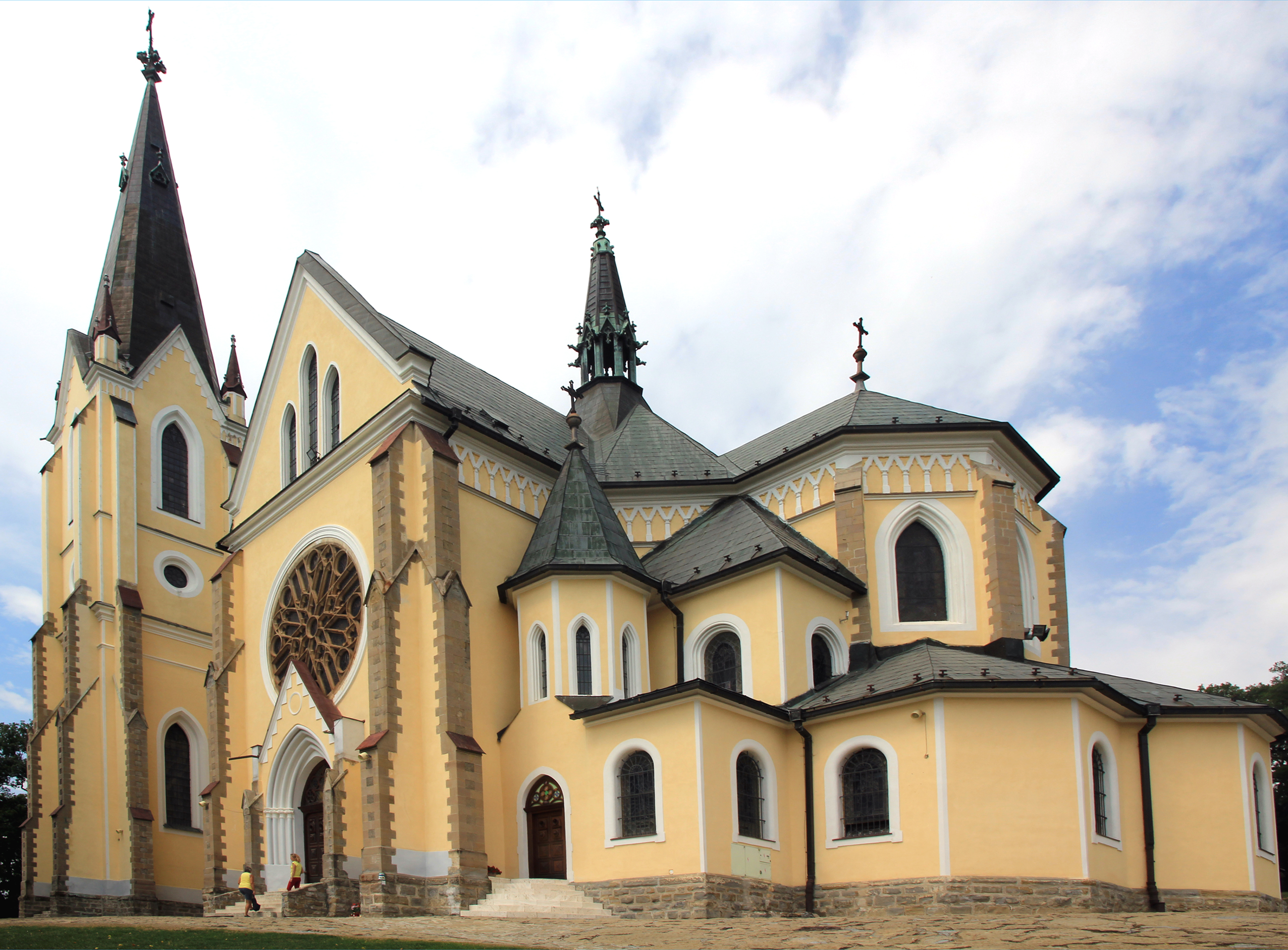 Basilica of the Visitation on Mariánska hora in Levoča, Slovakia